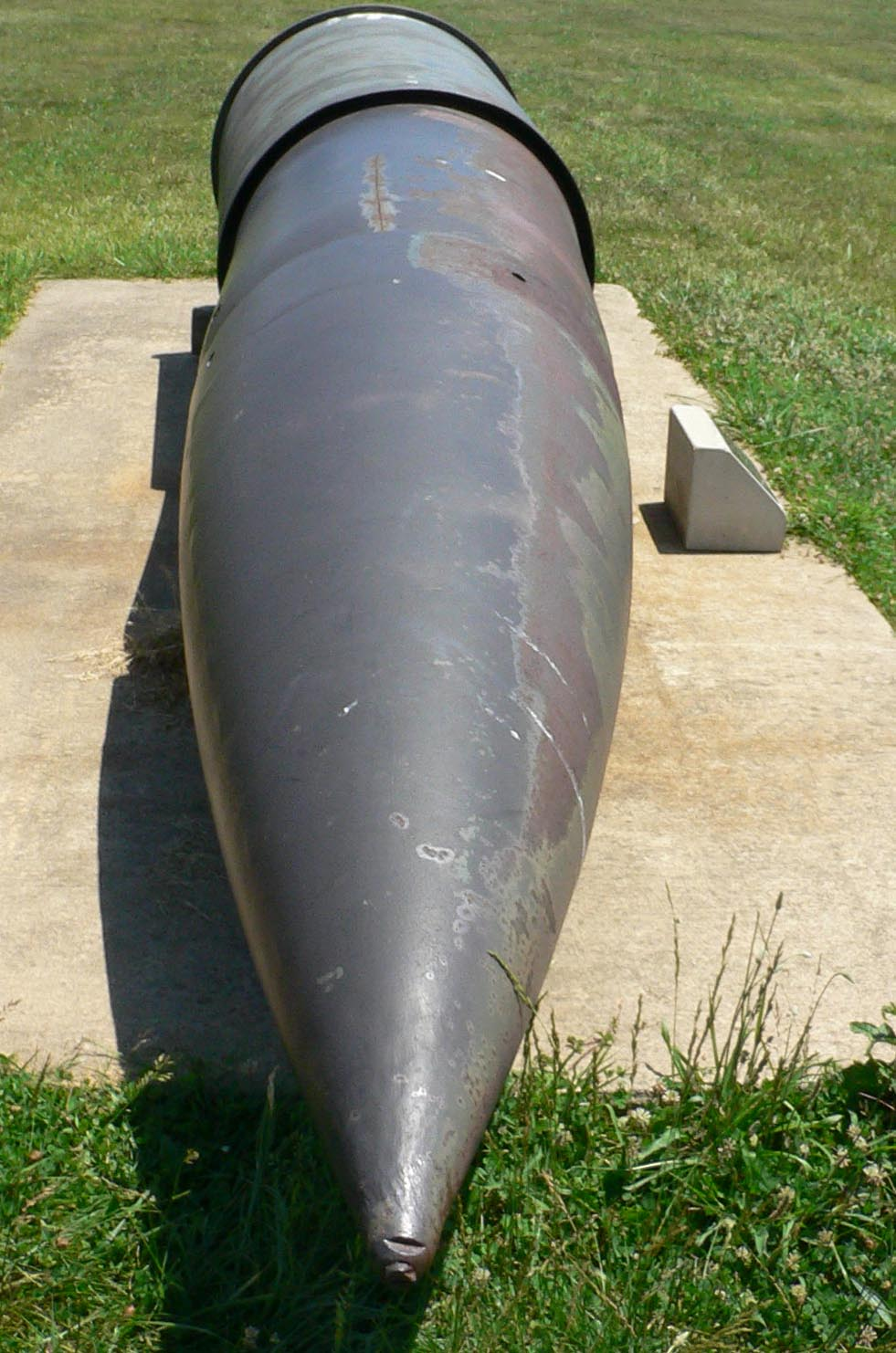 Schwerer Gustav projectile. Picture taken at the United States Army Ordnance Museum (Aberdeen Proving Ground, MD).